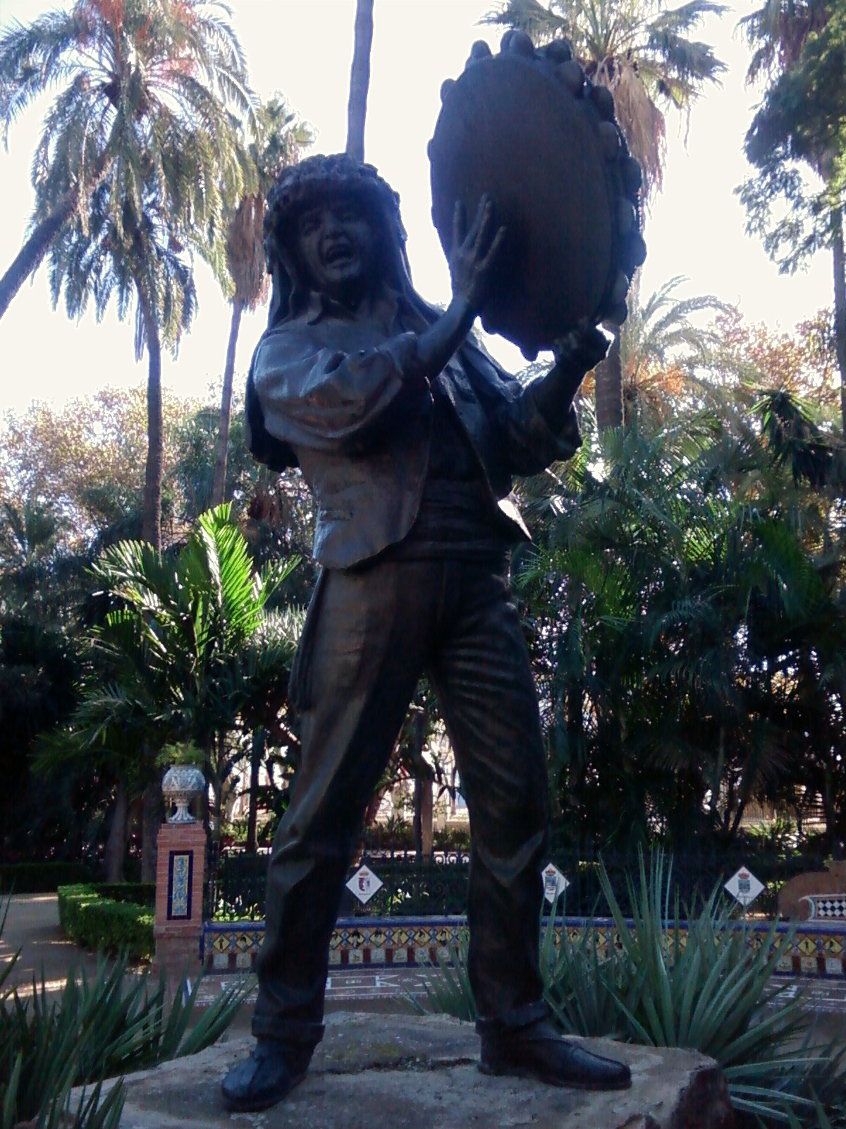 "El Fiestero" Sculpture, Málaga Park, Spain